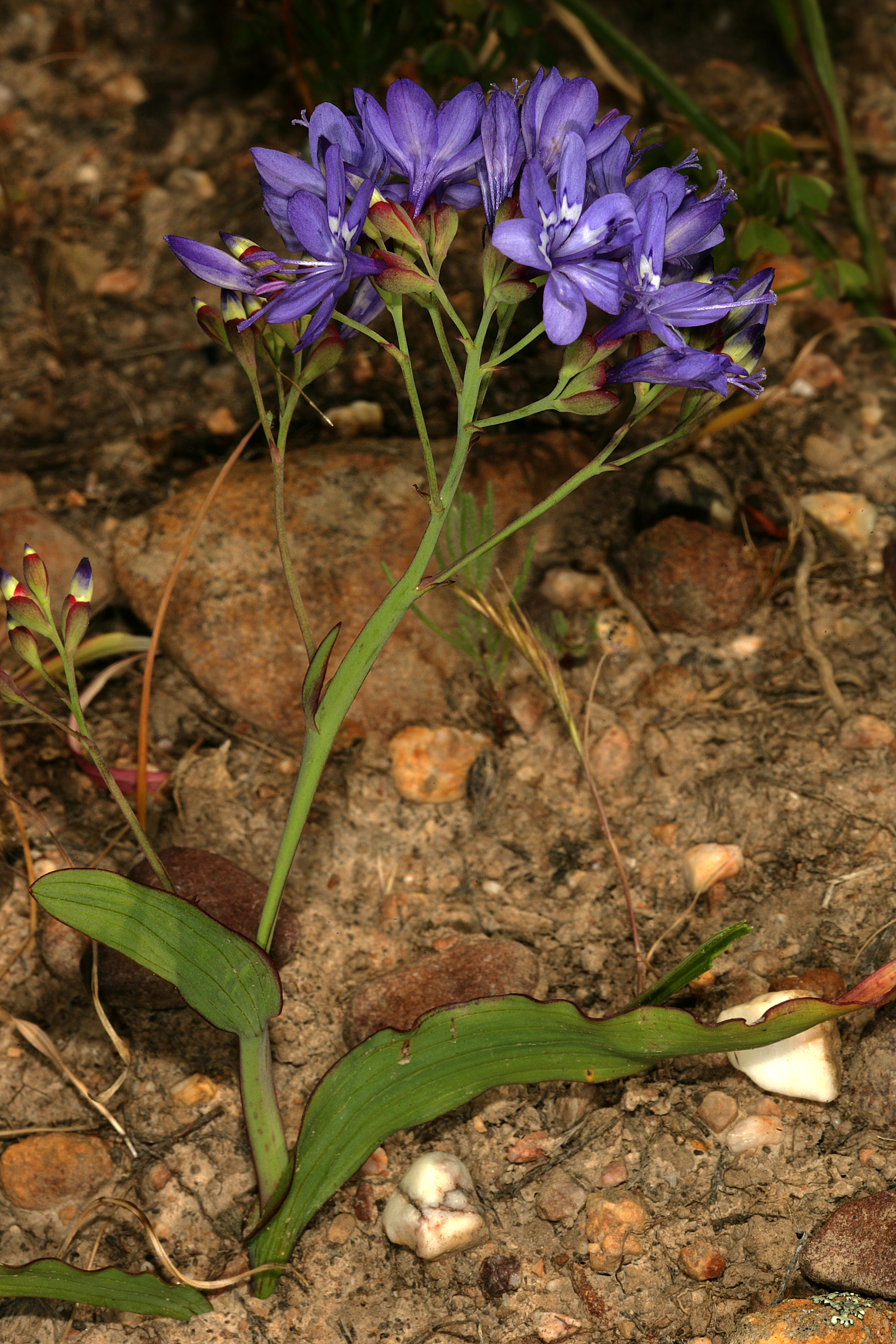 Codonorhiza elandsmontana, plant in flower; the flowers are inverted, meaning that the three upper tepals (without white markings) and stamens are in the lower (front) position. Relict patch of renosterveld between Wolseley and Tulbagh, Western Cape, South Africa